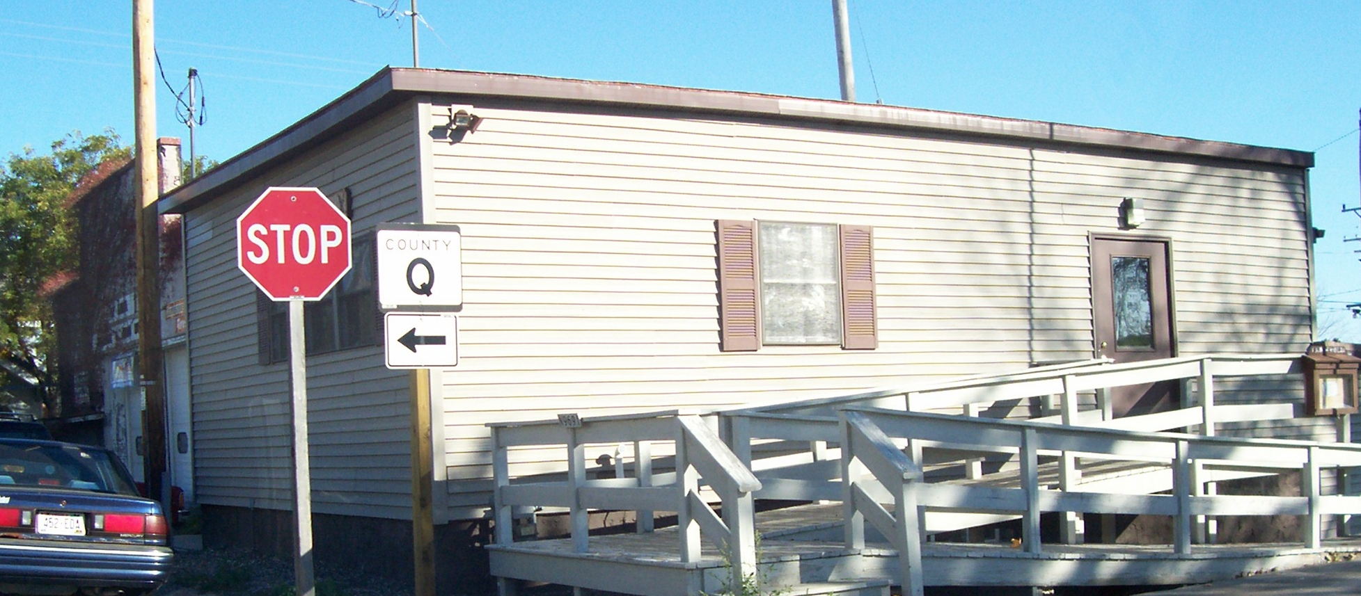 Looking north at the town hall for the Russell, Sheboygan County, Wisconsin, USA. It is located near the south edge of the unincorporated village of St. Anna, Wisconsin. It is located on a parcel at the north edge of the township (not the village of St. Anna). St. Anna is located in two villages. Cropped from the original.